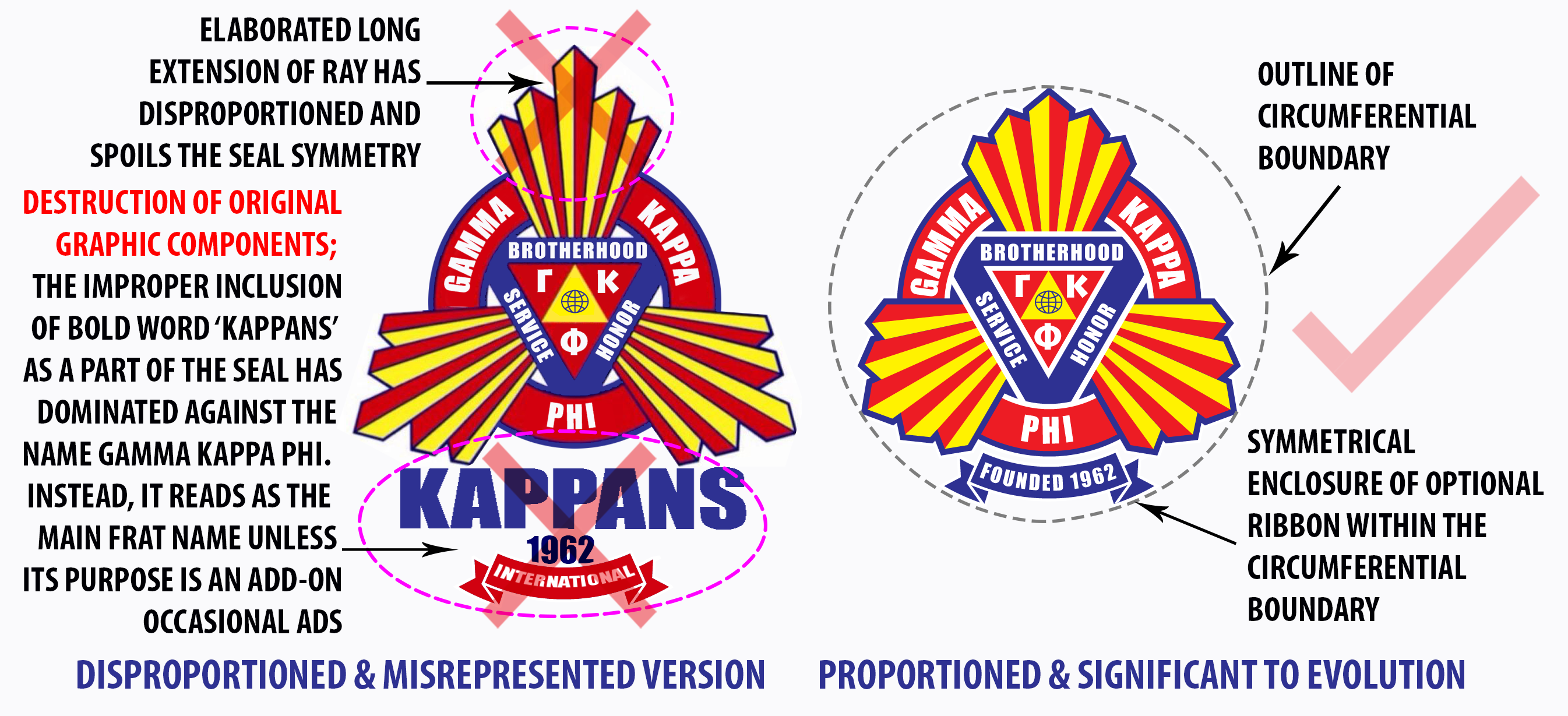 Seal version of image proportion conflict